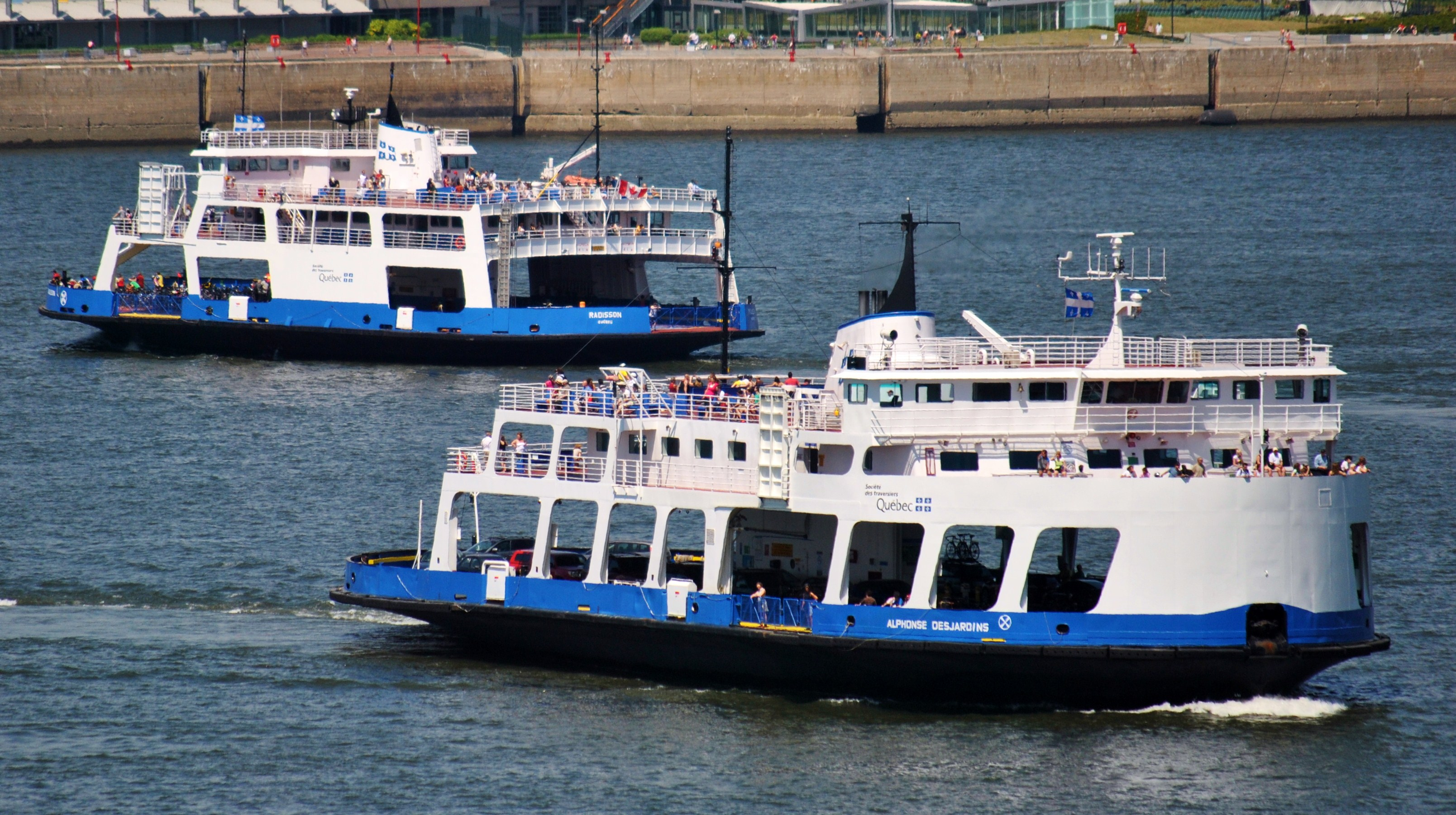 The two ferries (Radisson and Alphonse-Desjardins) that link Quebec City and Lévis. They cross the Saint-Lawrence River.